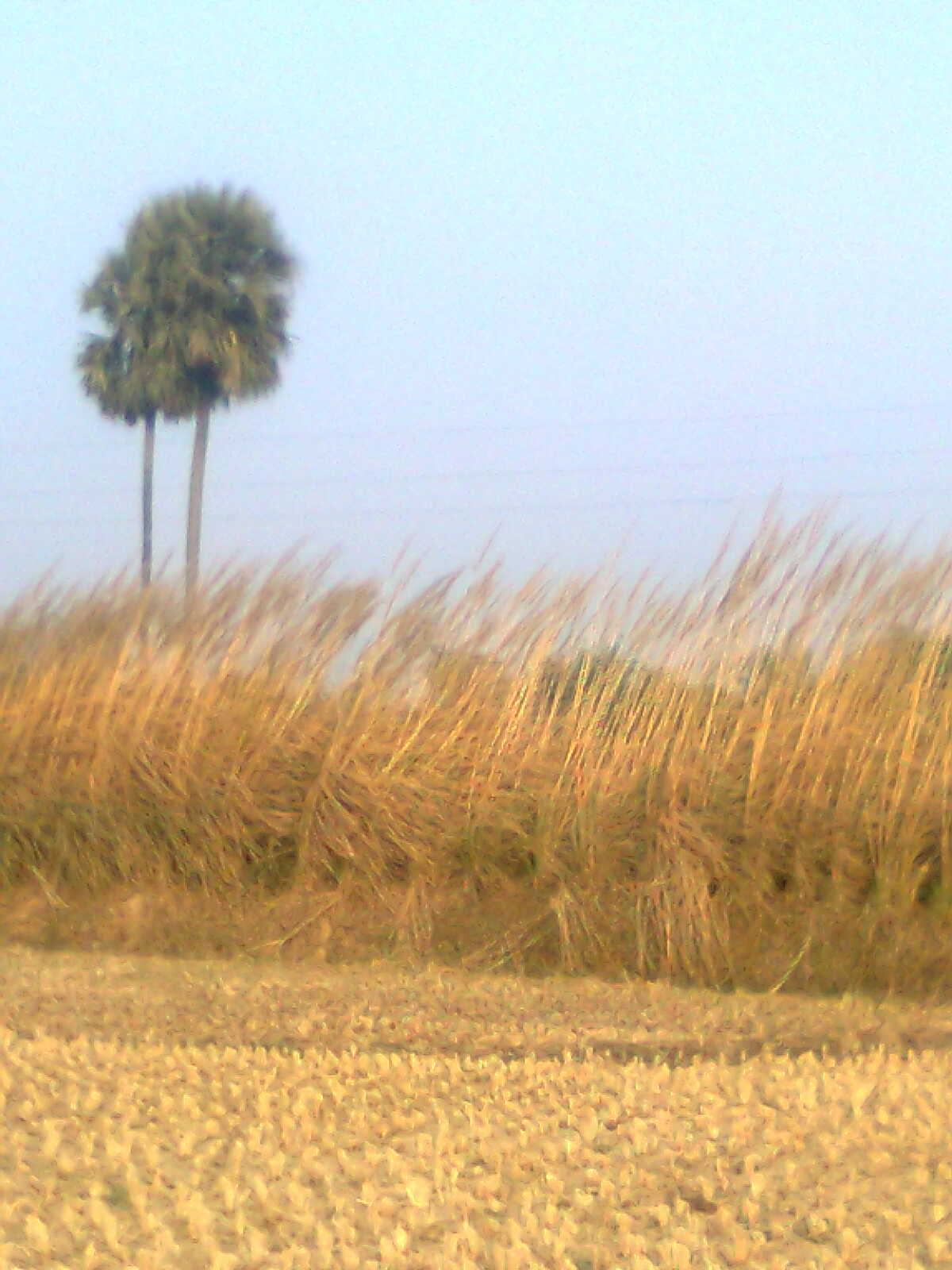 It's a typical dance saontal peoples.